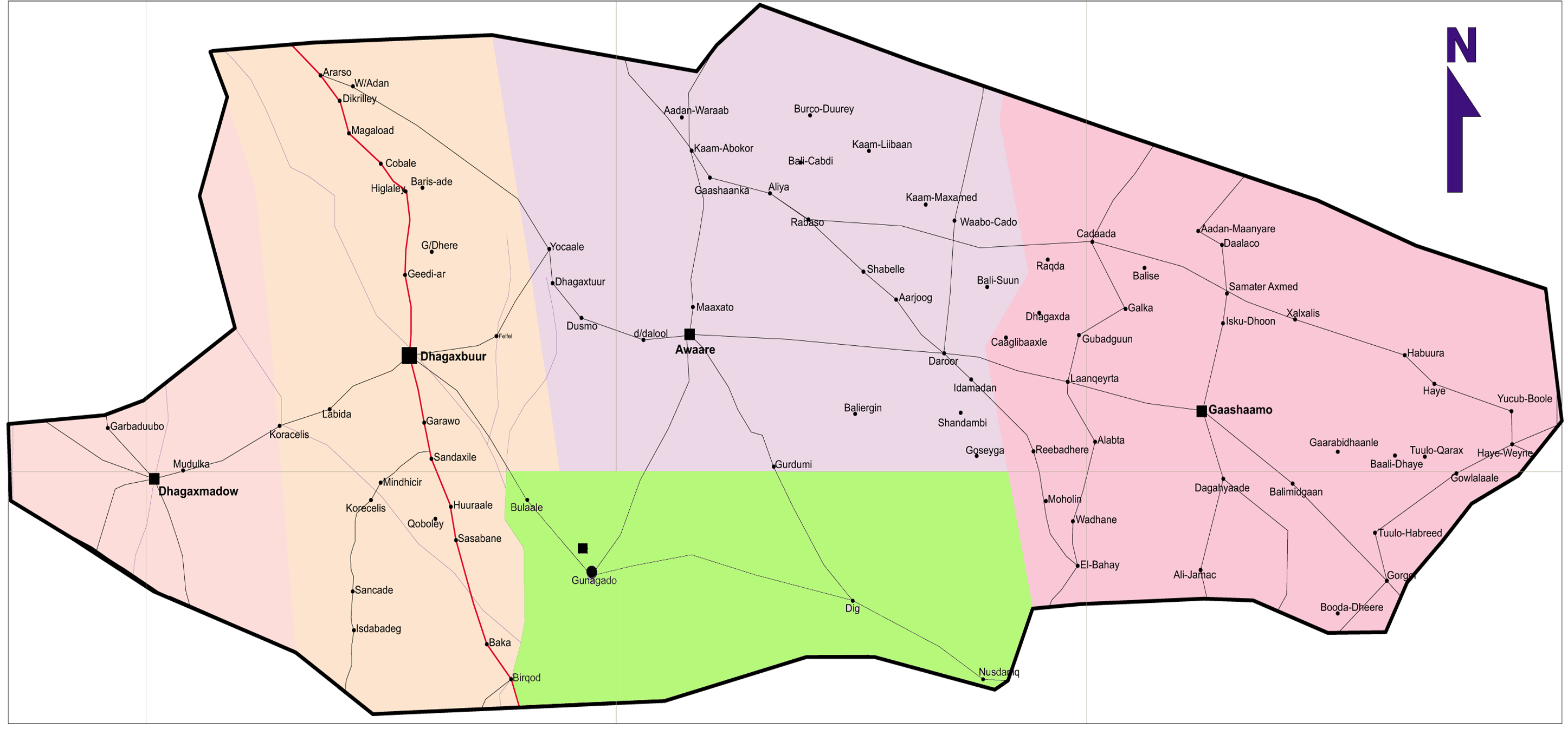 Map of Degehabur